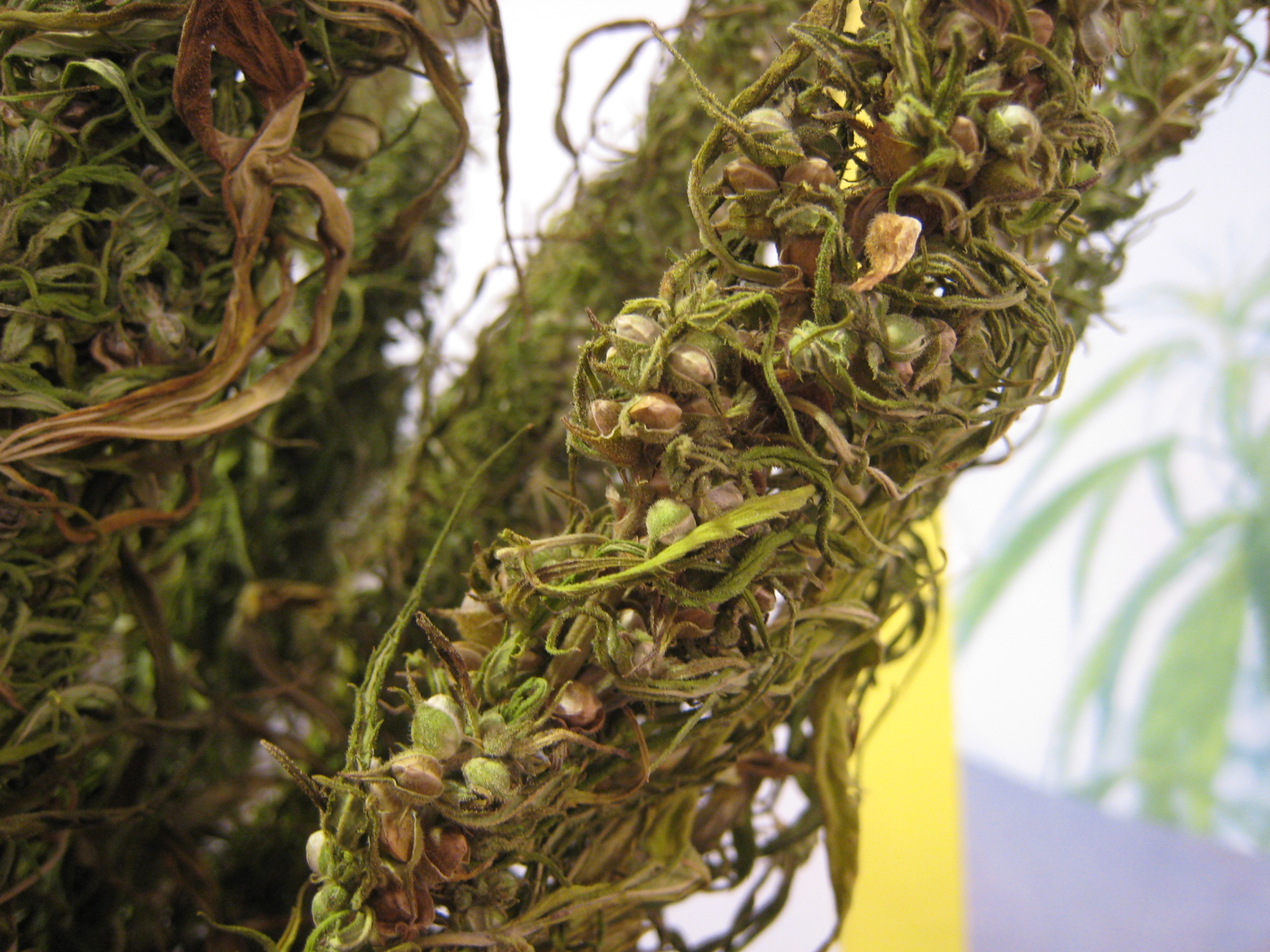 Close up of hemp seeds which were not separated from the hemp plant.